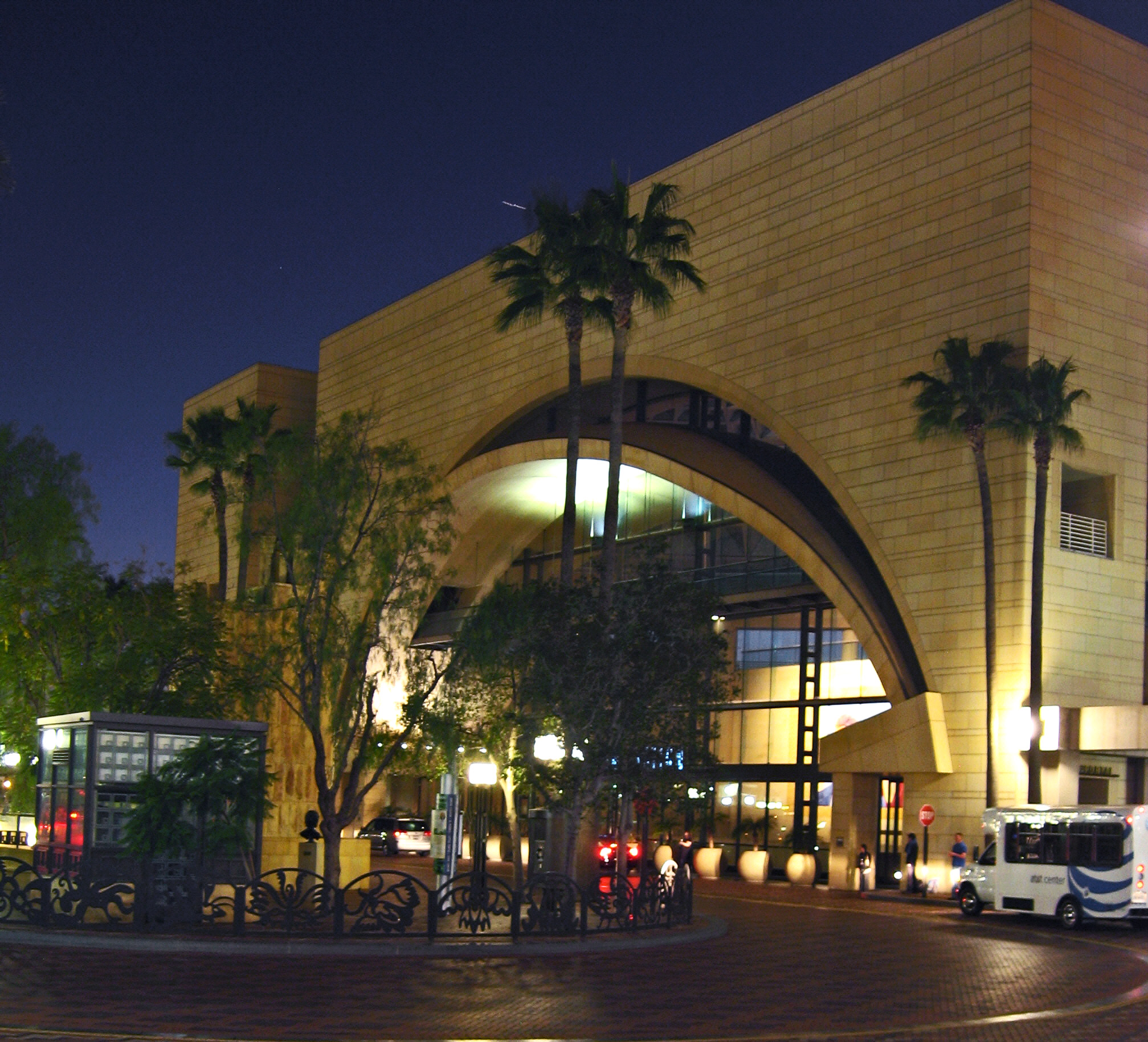 View of the Patsaouras Transit Plaza and the east entryway to Union Station, Los Angeles.